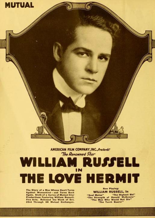 Advertisement in Moving Picture World for the film The Love Hermit (1916).